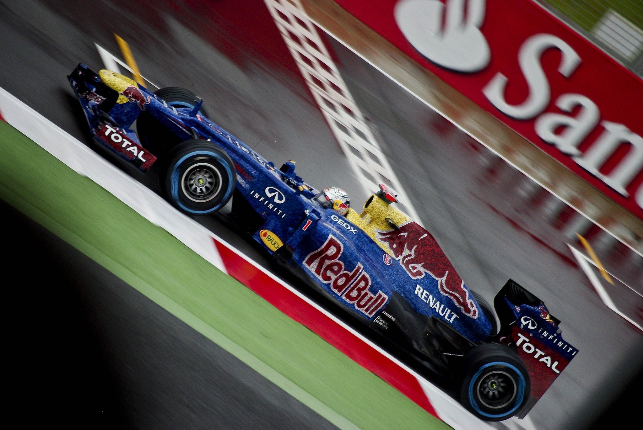 Date Taken:- 06/07/12 Images Shows:- Two time and current Formula One (F1) World Champion Sebastian Vettel (Germany) drives his Red Bull car in the very trecharous conditions at the Santander British Grand Prix at Silverstone, Northampton, United Kingdom (UK). The special Wings For Life liveried car looked great driving through the cascades of water flooding the circuit. The new RB8 designs were unveiled prior to free practice one and sees fans pictures laid on the car.